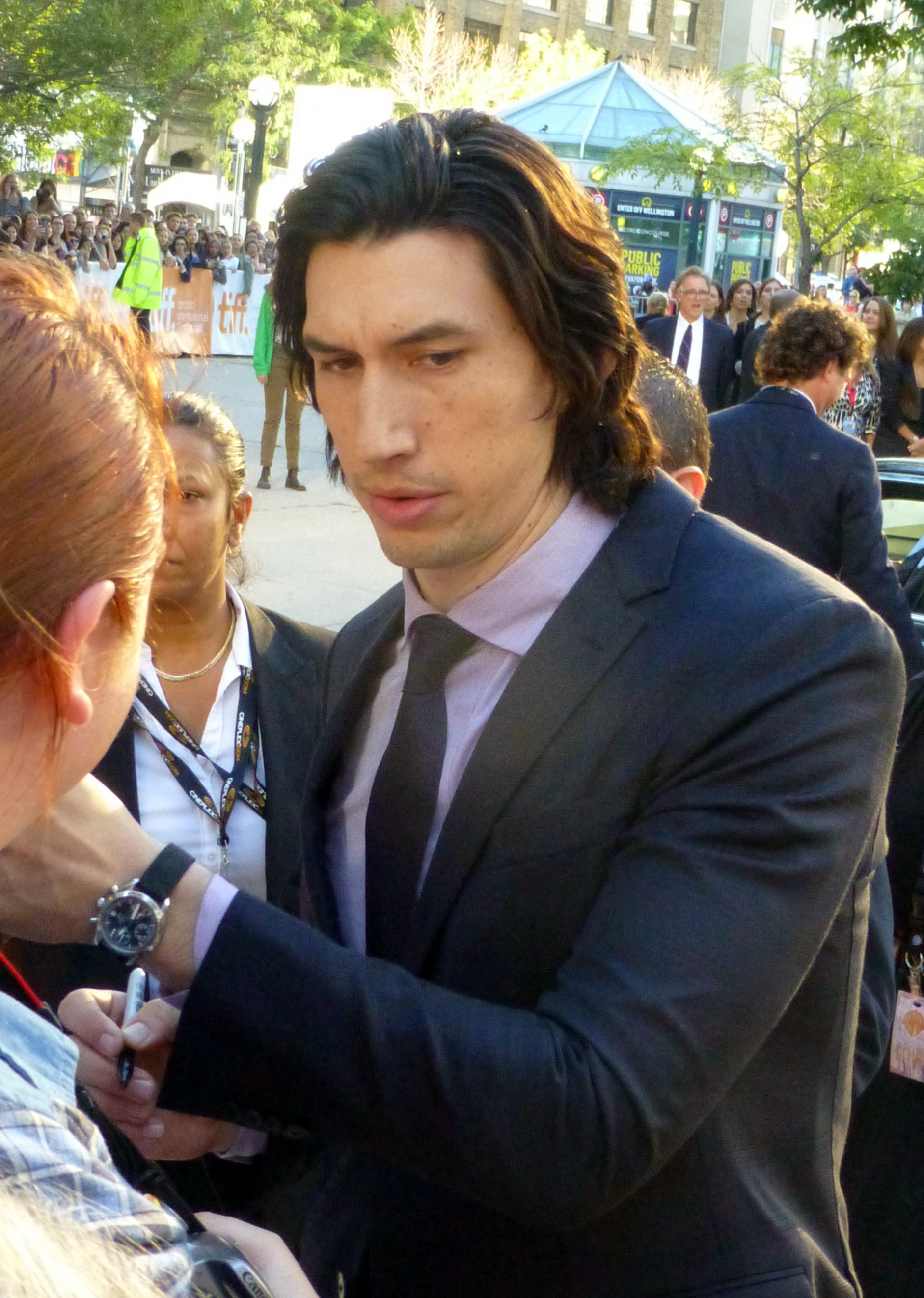 Adam Driver at the premiere of This Is Where I Leave You, 2014 Toronto Film Festival